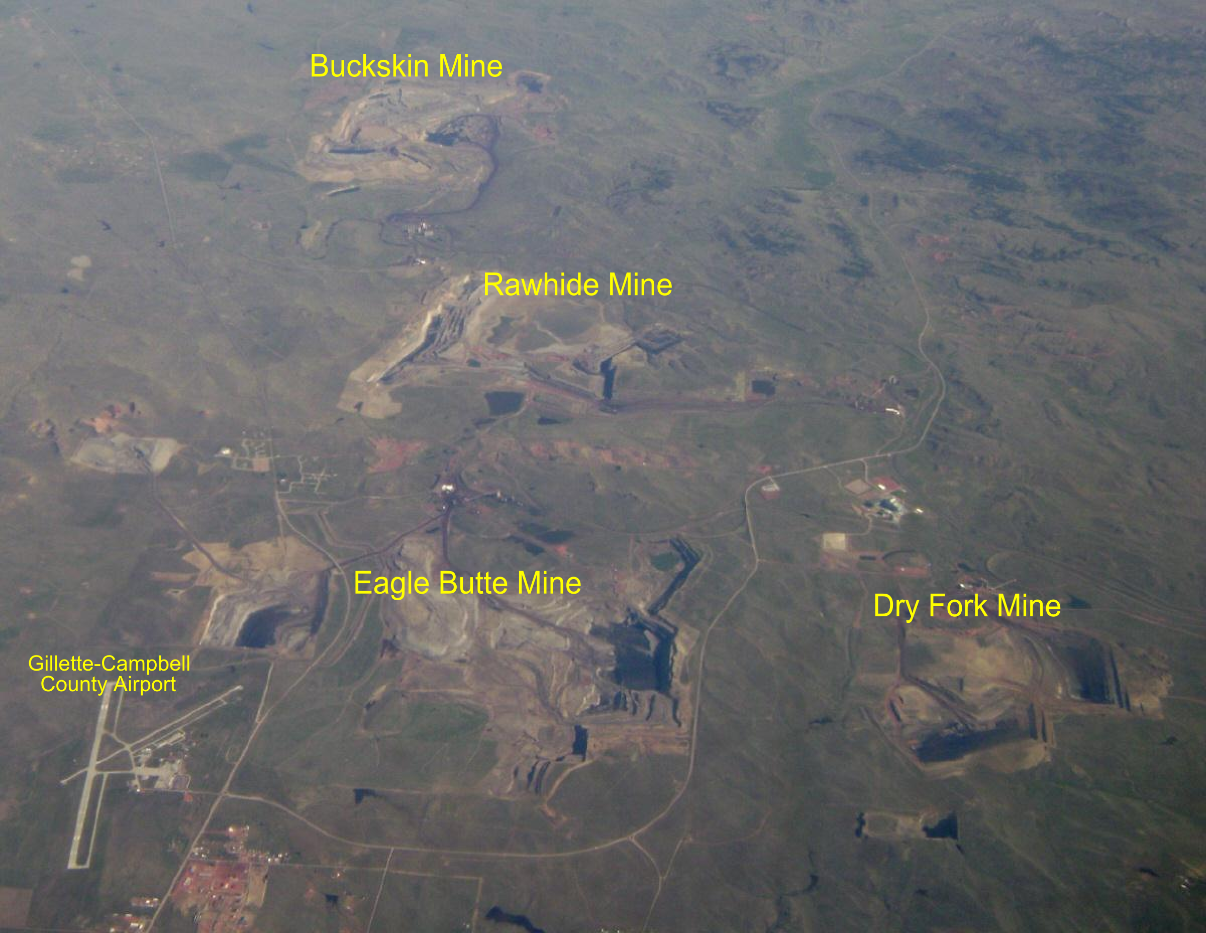 Coal mines of the Powder River Basin — seen north of the city of Gillette in Campbell County, Wyoming. Strip mines visible in the image include: the Eagle Butte Mine, Dry Fork Mine, Rawhide Mine, and the Buckskin Mine (Kiewit Corporation). The Gillette-Campbell County Airport is also visible. Photo was taken at an altitude of 38,000 feet during a transcontinental commercial flight from New York City (JFK) to San Francisco (SFO), on May 7th, 2012.